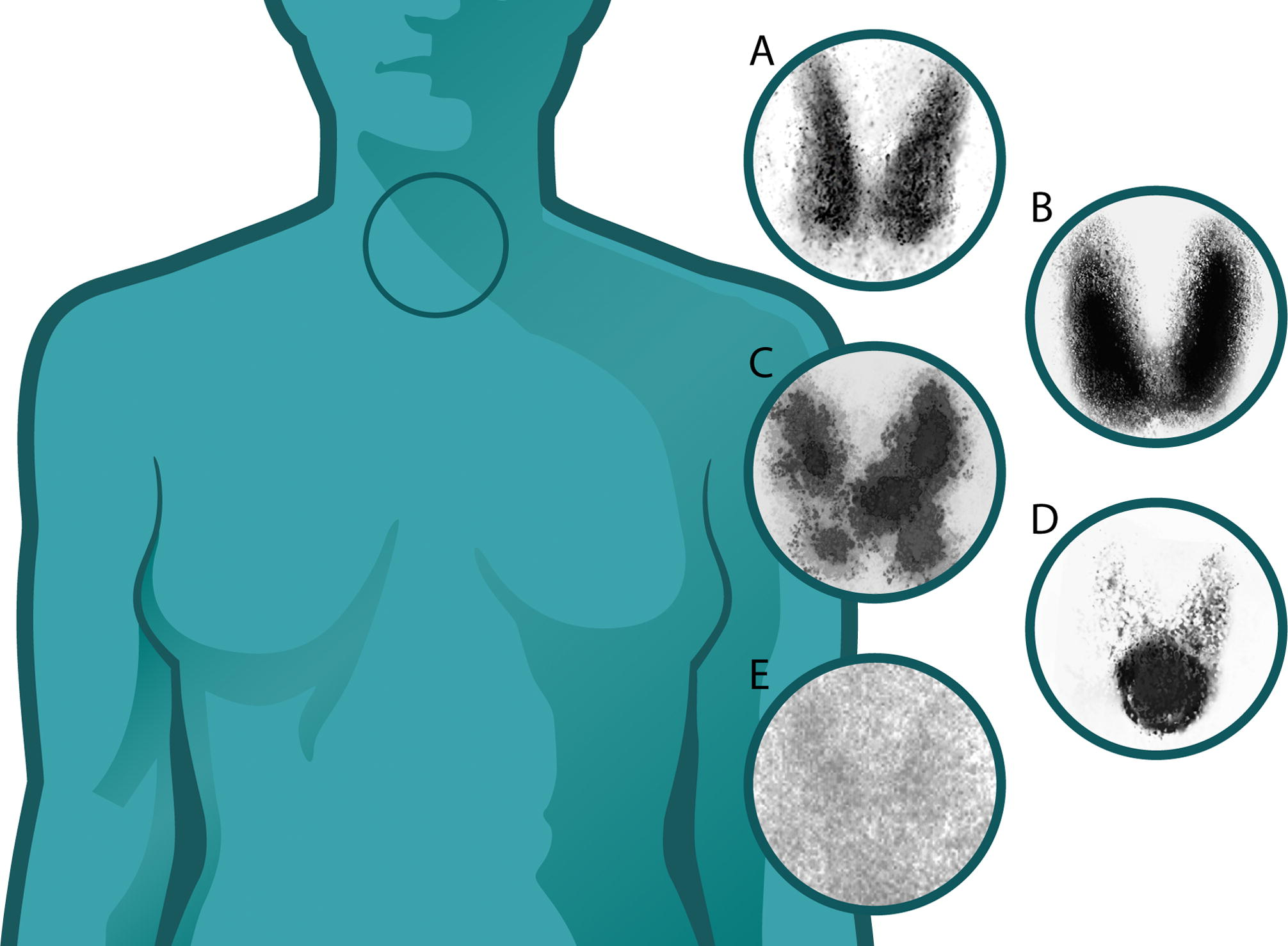 5 different scintigramms taken from thyroids with different syndroms: A) normal thyroid, B) Graves disease, diffuse increased uptake in both thyroid lobes, C) Plummers disease (TMNG, toxic multinodular goitre), D) Toxic adenoma, E) Thyroiditis. Marker 99Tc